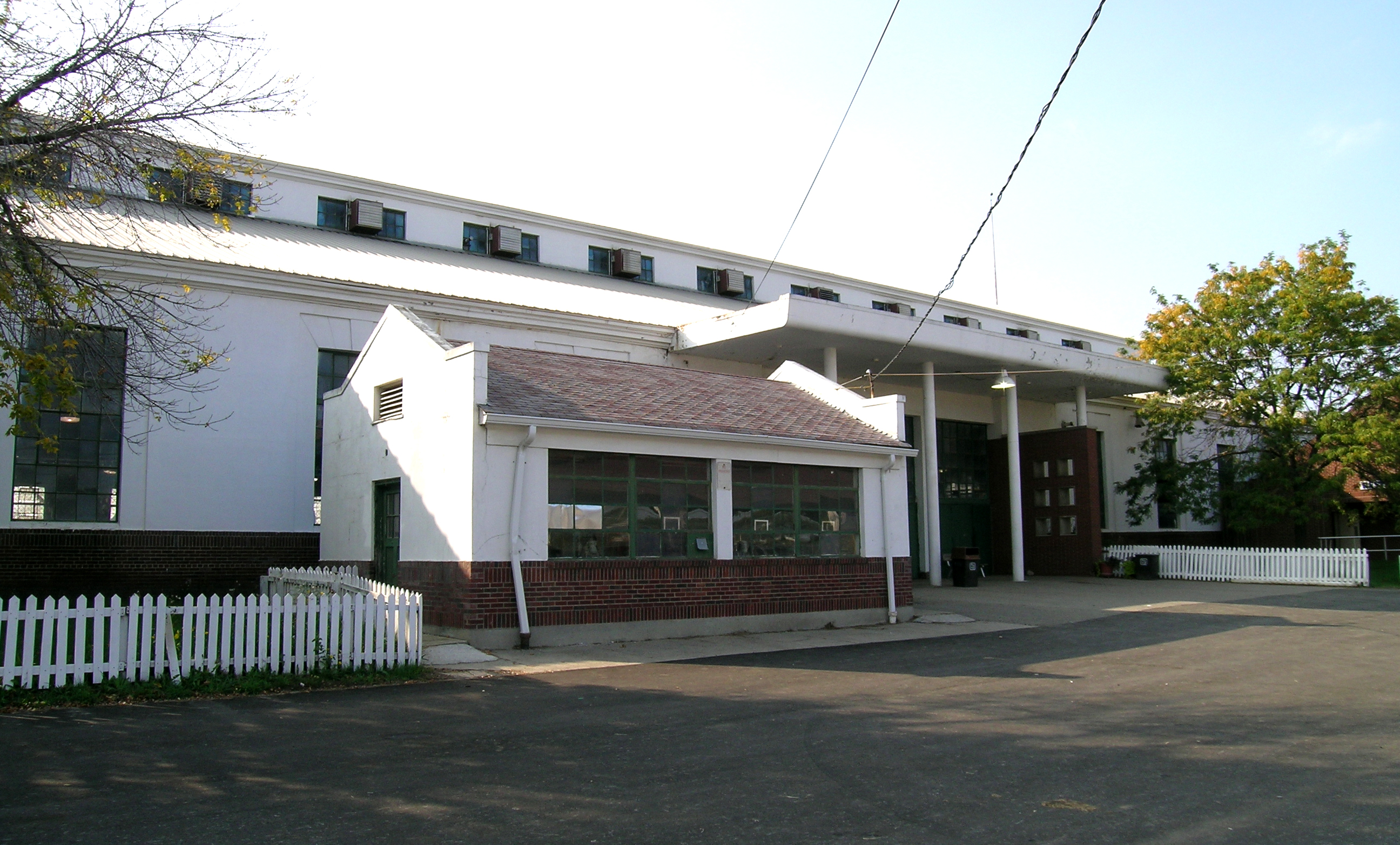 Dairy Cattle Building at the Michigan State Fair in Detroit